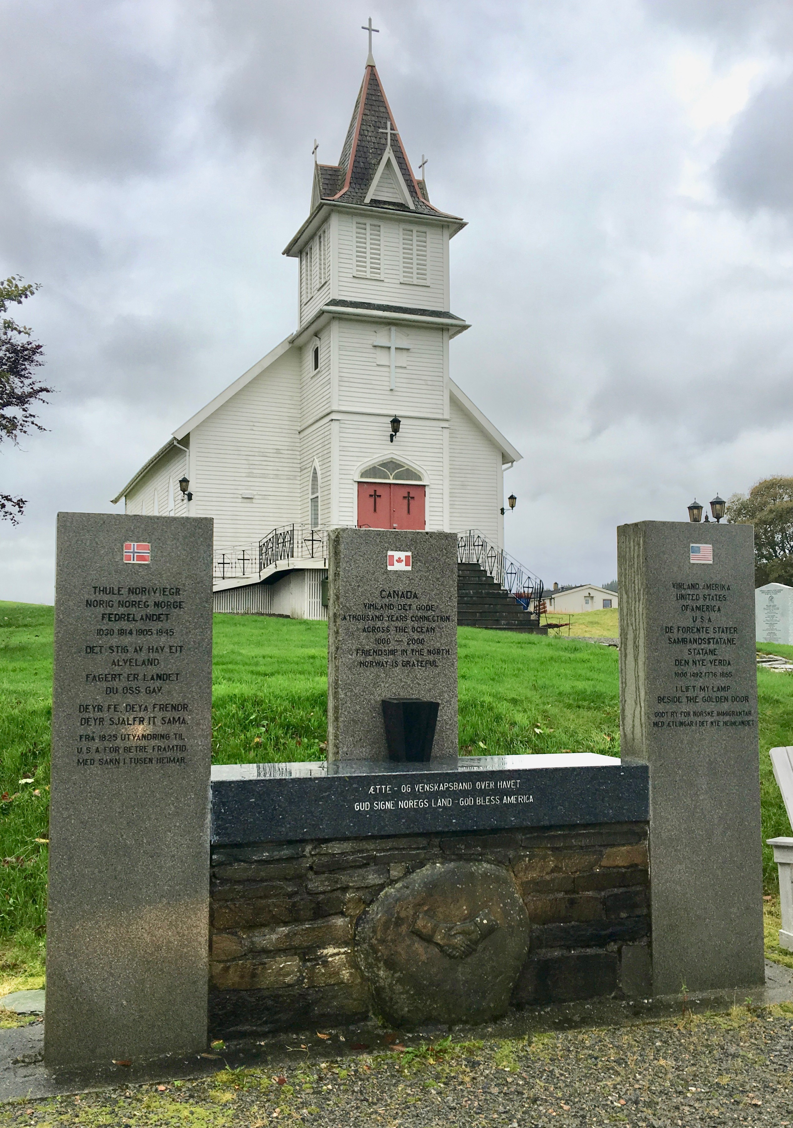 Memorial monument by "Emigrantkyrkja/Emigrantkirken" (former Brampton Lutheran Church, North Dakota, built 1908–1922) moved 1996 to "Vestnorsk utvandringssenter/utvandrarsenter" (Western Norway Emigration Center) in Radøy, Hordaland, Norway: "Ætte- og vennskapsband over havet (...) Thule Norvegr Norge Fedrelandet (...) Canada (...) Vinland Amerika U.S.A.". Photo 2017-10-03